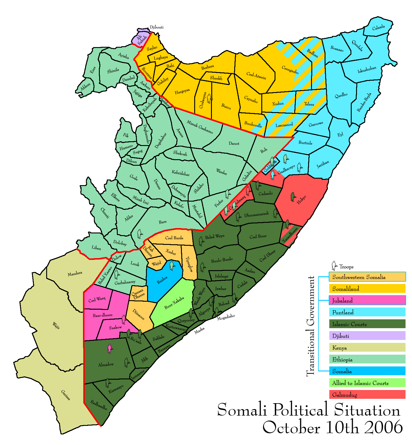 Somali political situation as of October 10, 2006.